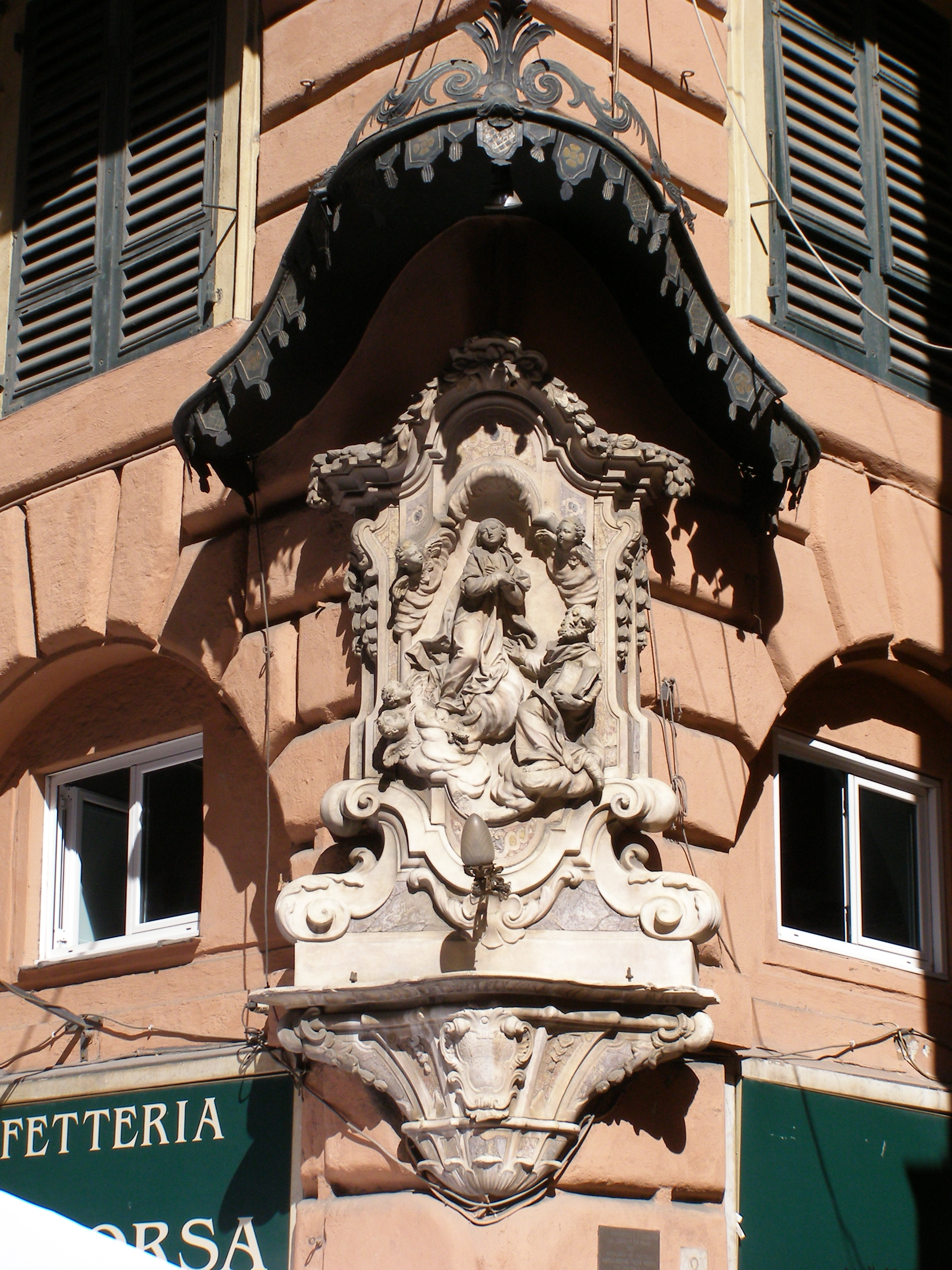 Genoa - a votive chapel on a house in Piazza Banchi